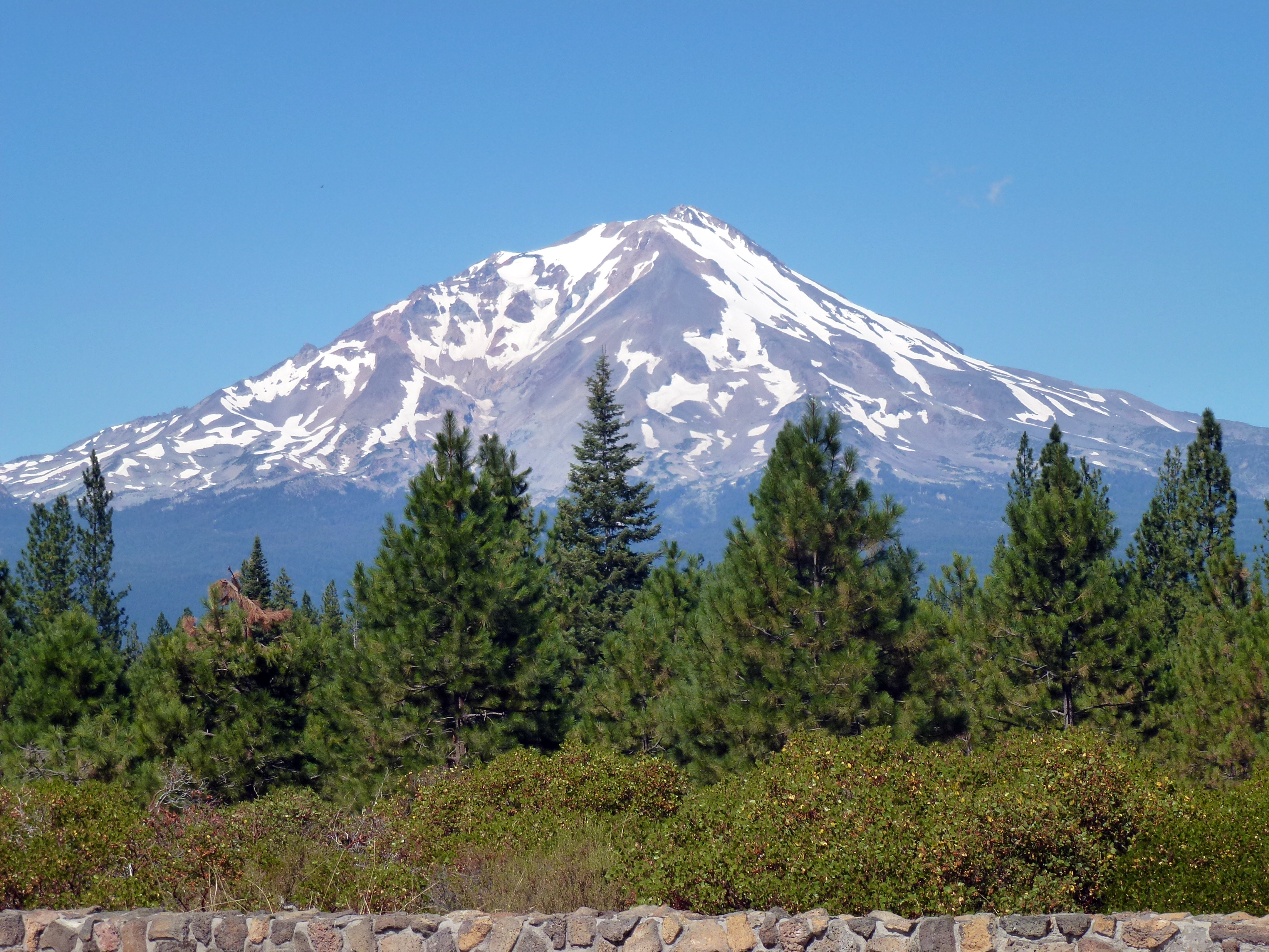 Mount Shasta from a viewpoint on Highway 89 near McCloud, California.